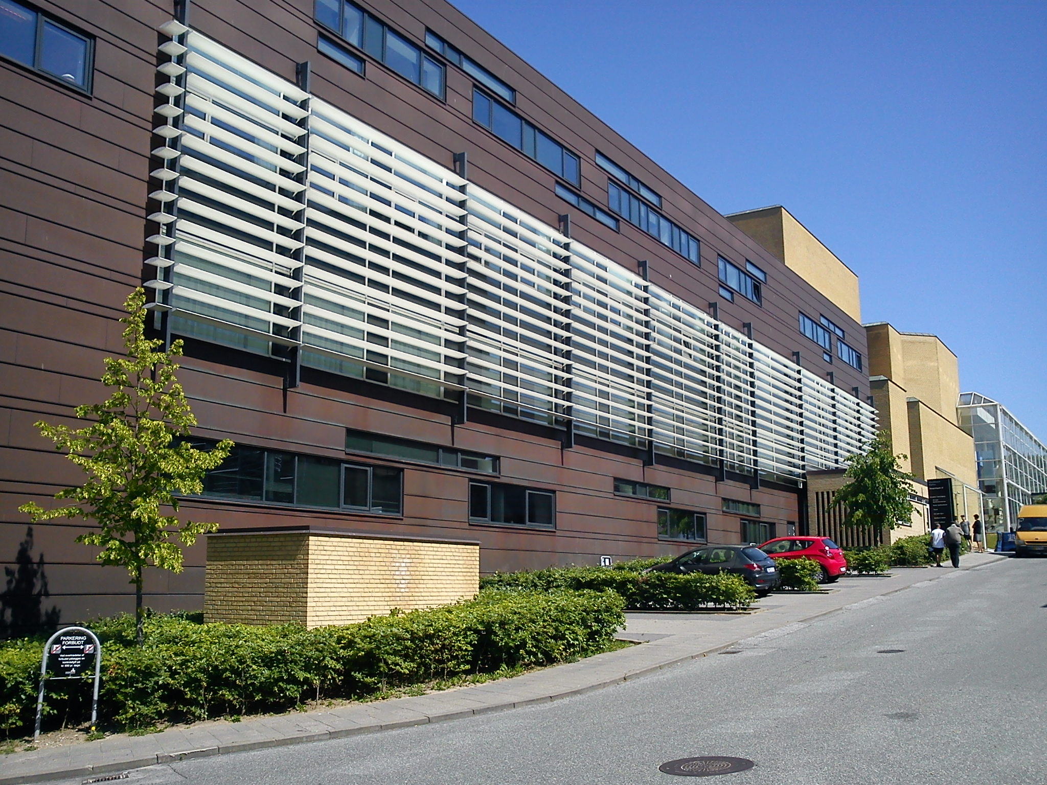 The Royal Academy of Music, Aarhus/Aalborg. The southwestern facade - with the main entrance - of the headquarters in Aarhus.